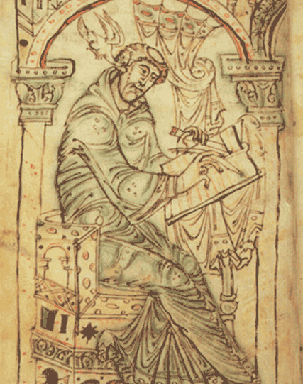 Tonsured and beardless St. Jerome in a green robe, writing with a pen in the right hand and a knife in the left hand; a dove at his ear. Full-page drawing, folio 1v of a Latin and Old English manuscript of the Lives of the Hermits Paul and Guthlac. This *not* Beda Venerabilis, please see the discussion page.